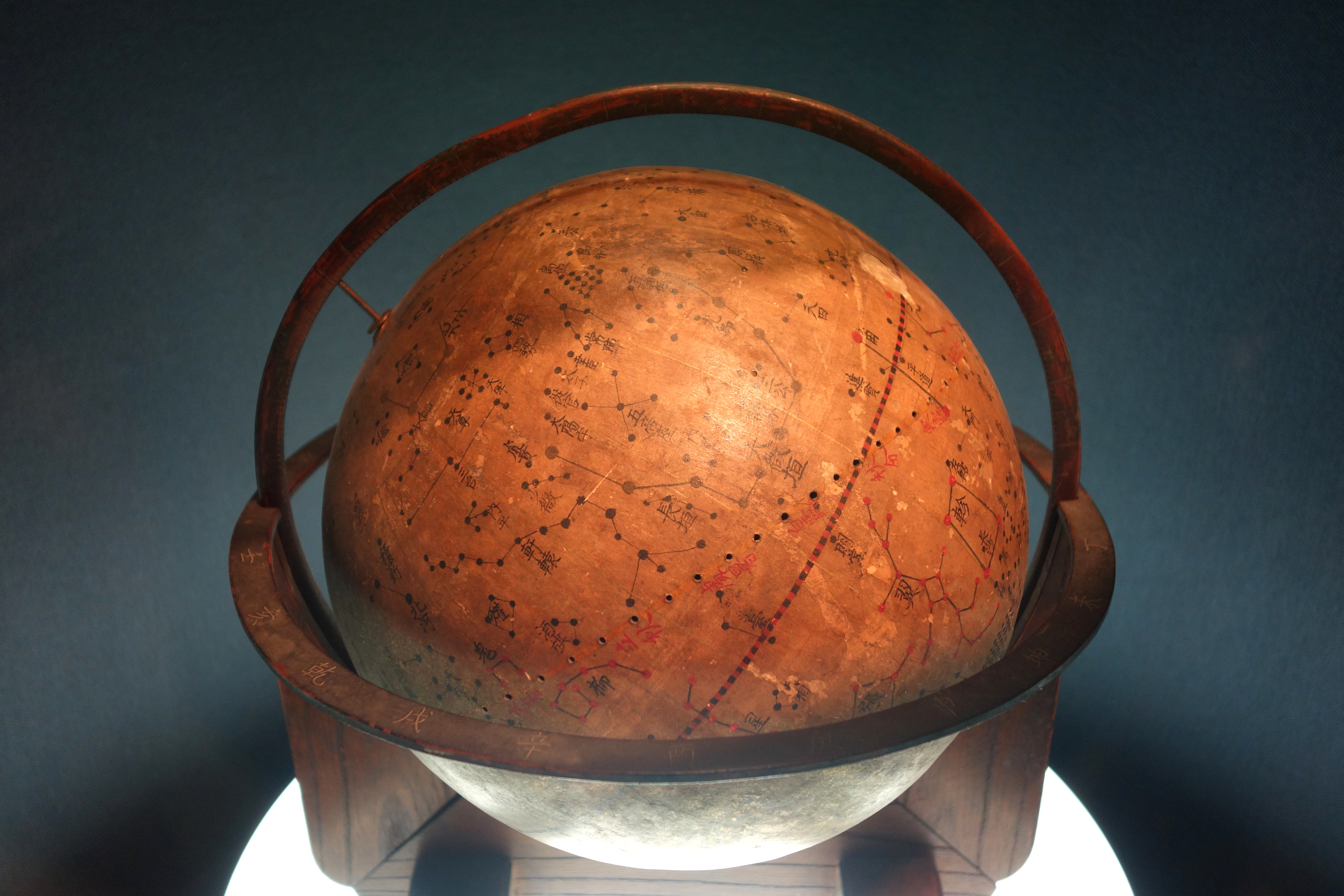 Exhibit in the National Museum of Nature and Science, Tokyo, Japan.